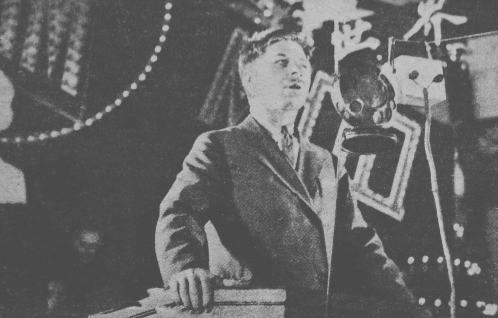 Pavlo Postyshev speaks at House of Unions Sep 05 1931.